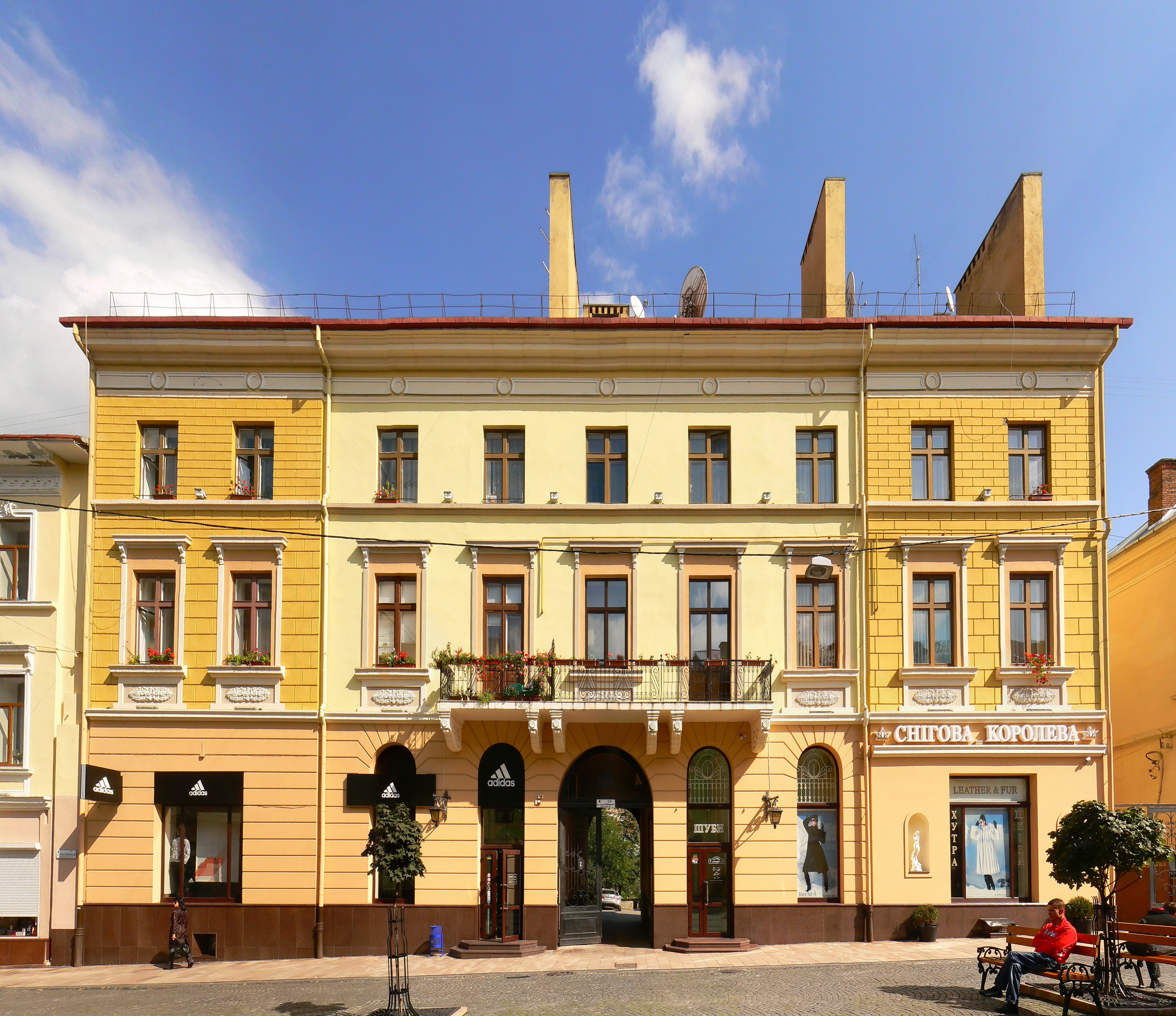 Кобилянської, 19